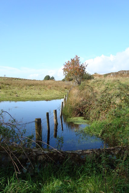 Flooded field in Raneany